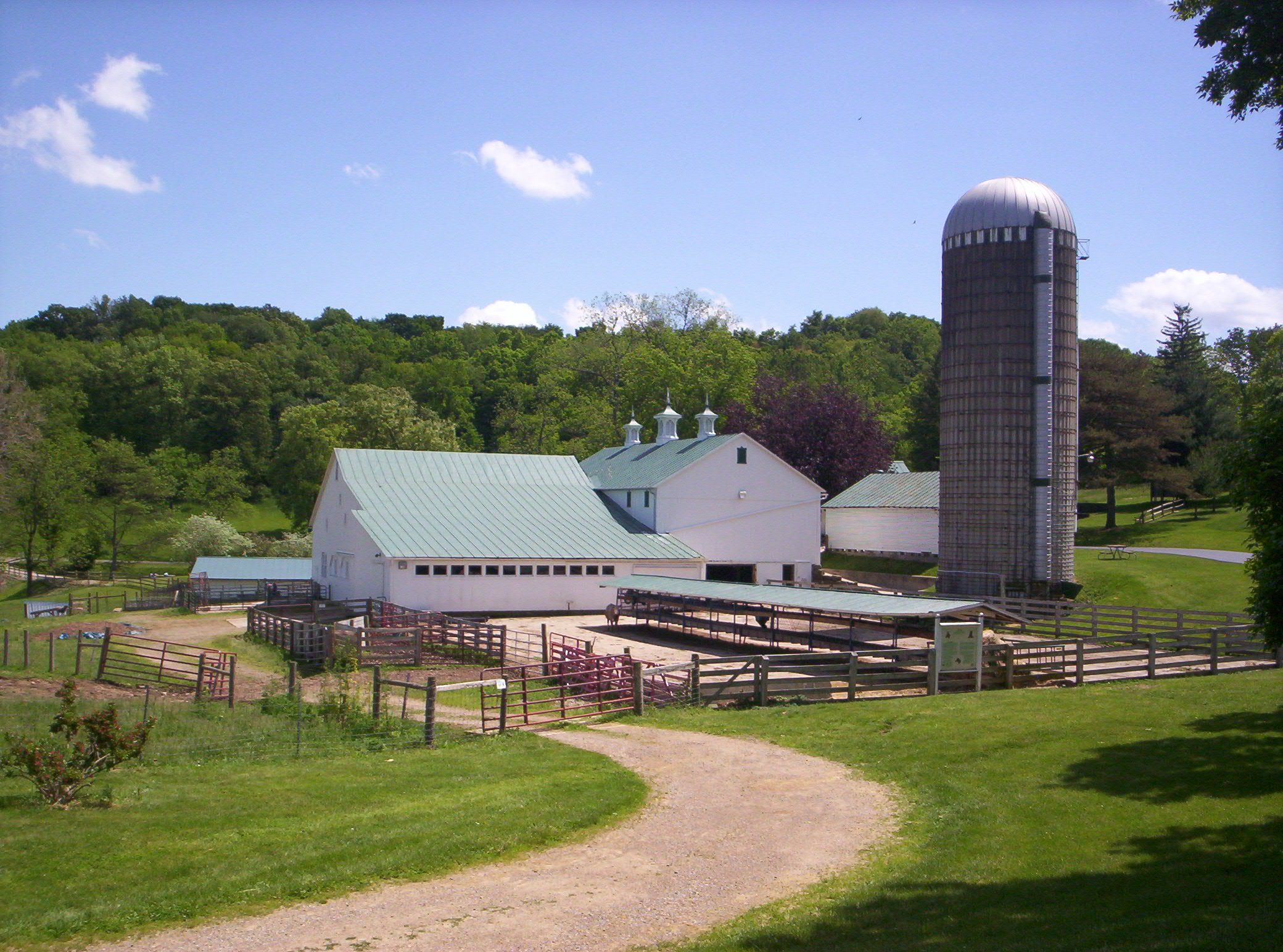 A view of The Main Dairy Barn and Petting Farm at Malabar Farm State Park near Lucas, Ohio.